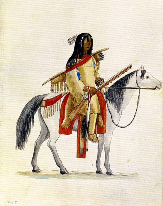 Indian on horseback. Watercolor by Maximilian zu Wied-Neuwied 1833 or 1834.